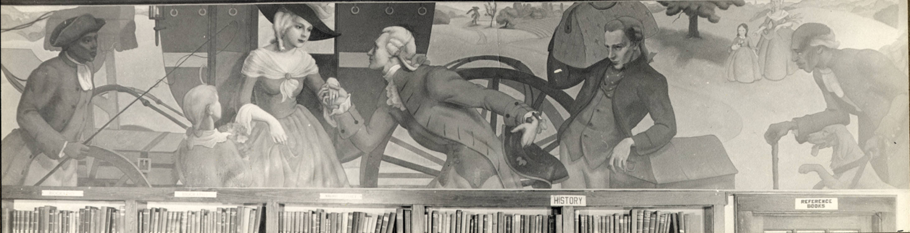 " Photograph of a 1934 mural entitled "Arrival of Mary Carroll Caton at Castle Thunder" painted by Leonard Marion Bahr (1905-1990) located on the wall of the Catonsville High School library in Catonsville, Baltimore County, Maryland. The mural was commissioned by the Public Works of Art Project. The scene depicts the arrival of Mary (Polly) Carroll Caton (1770-1846) at Castle Thunder, her home on the Caton Manor estate, which was given to her in 1787 by her father, Charles Carroll of Carrollton (1737-1832), upon her marriage to Richard Caton (1763-1845), an English businessman. In the picture Mary is stepping down from a carriage and is warmly welcomed by her husband, most probably, and by a Caucasian girl holding flowers. To the far left is an African American coachman looking on; to the right is a Caucasian servant carrying the luggage. To the far right is an elderly African American man with a cane, holding back a dog. In the background to the right are a young Caucasian lady and girl watching the arrival. Under the mural are signs describing the type of books on the shelves below, such as Biography, History, and Reference. Castle Thunder stood until 1906, when it was razed. It is the present site of the Catonsville Library, located on the northwest corner of Beaumont Avenue and Frederick Road. The mural was destroyed in the 1960s during a renovation of the high school."